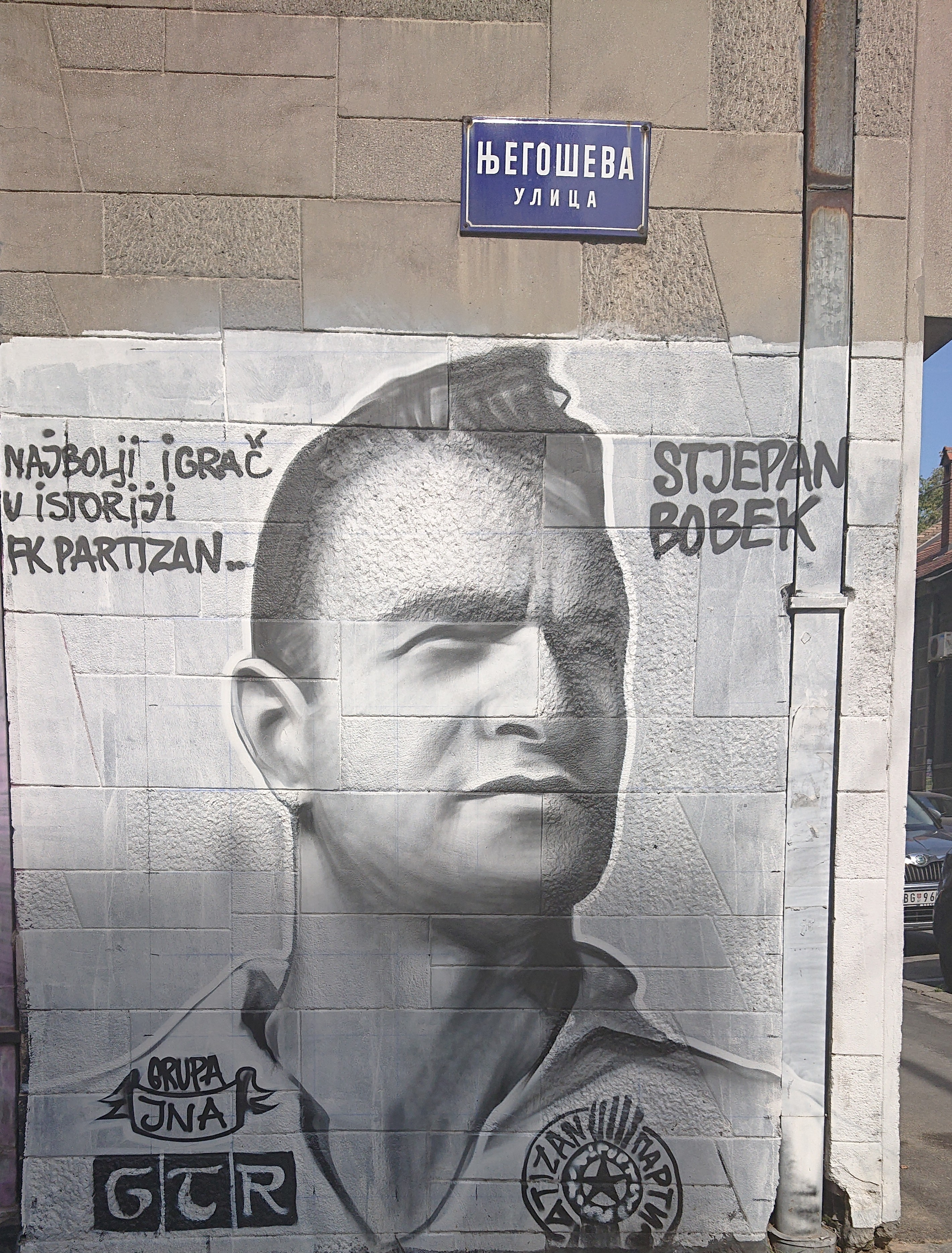 Graffiti of Stjepan Bobek in the Njegoševa street in Belgrade.